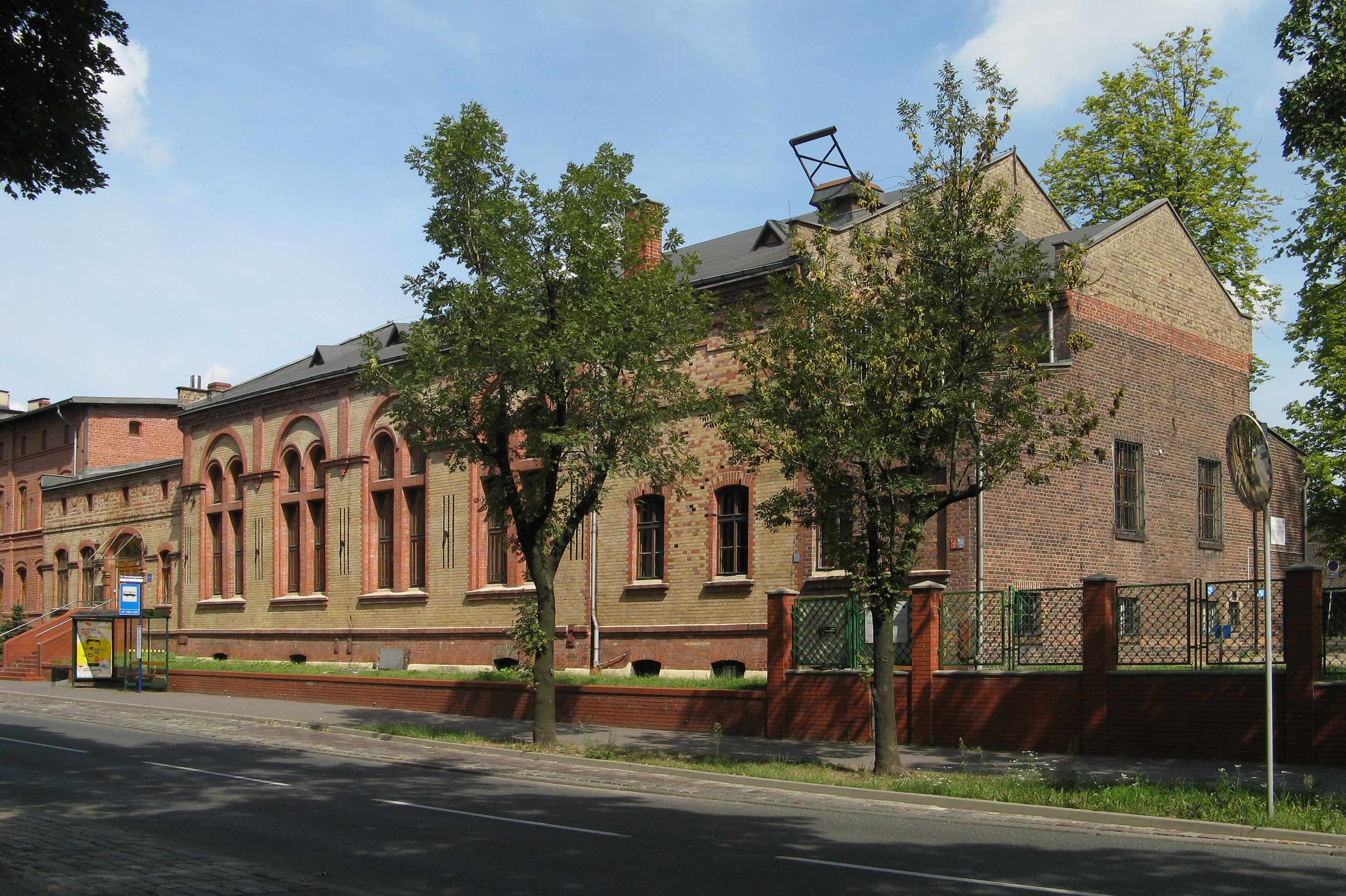 Culture centre of Zakłady Azotowe (nitrogen plants) built in 1904 in Chorzów, 59 Siemianowicka street. Wikidata has entry Q30063448 with data related to this item.